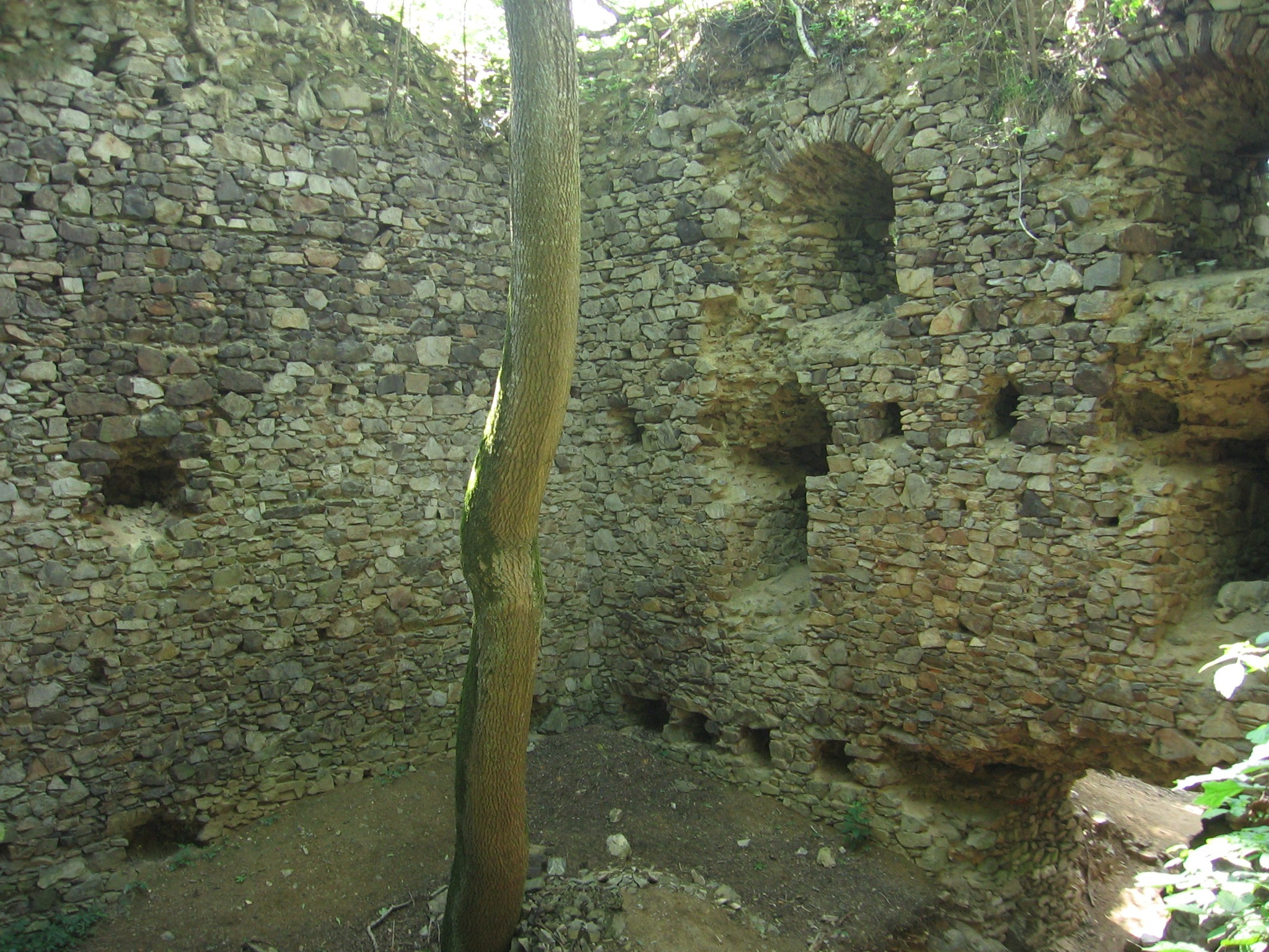 Castle (ruin) Nový Herštejn - inide view